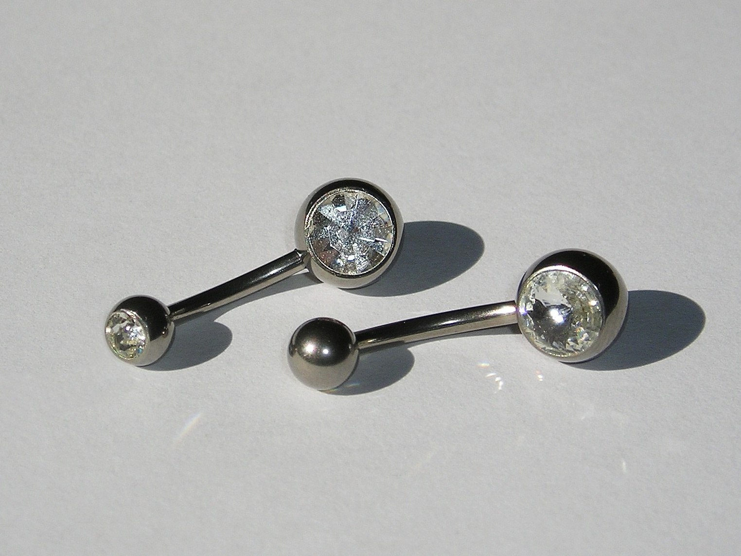 Schmuck für Bauchnabel, aufgenommen 2008.